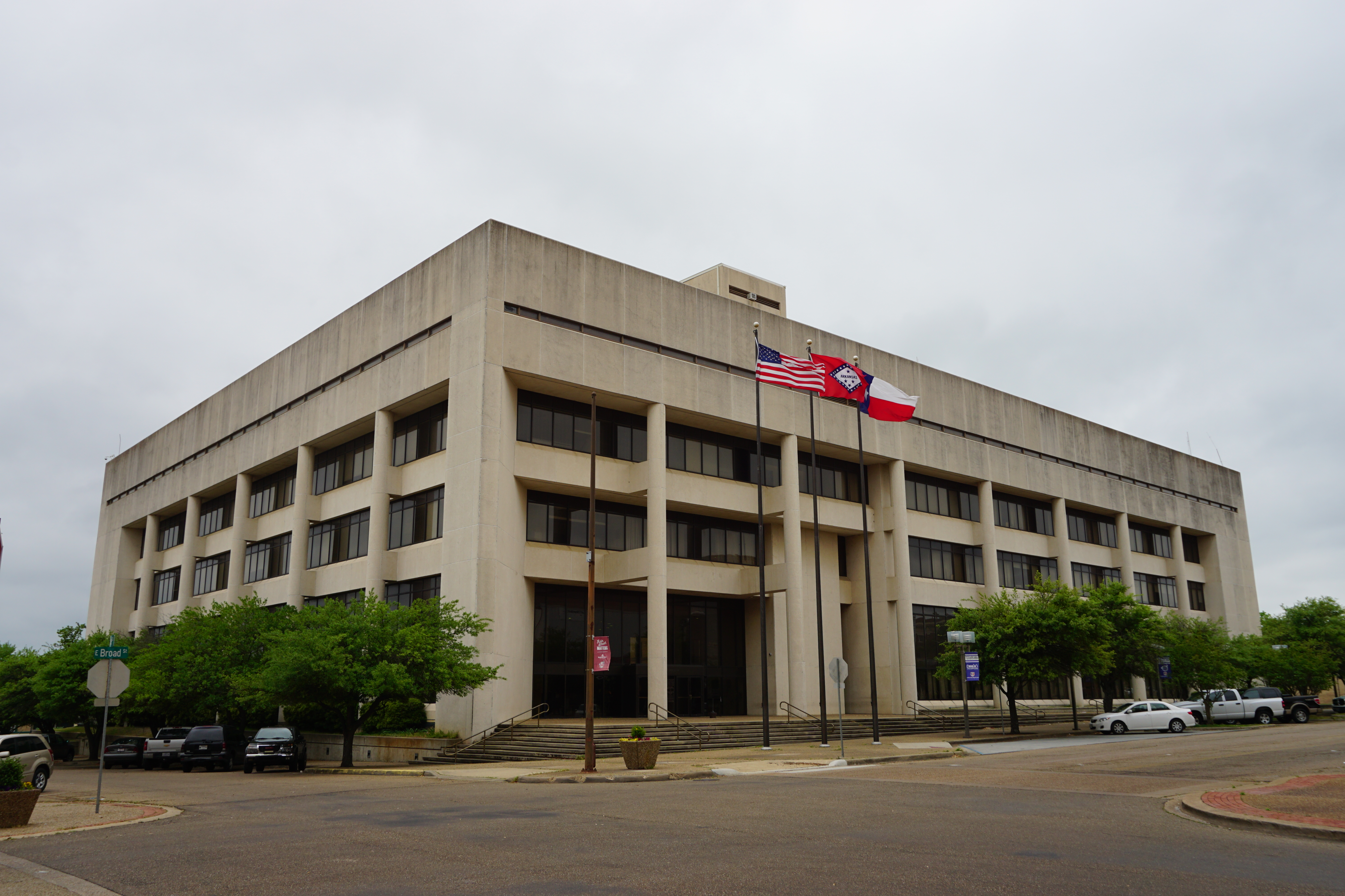 The Bi-State Justice Building in Texarkana, Arkansas, and Texarkana, Texas (United States).